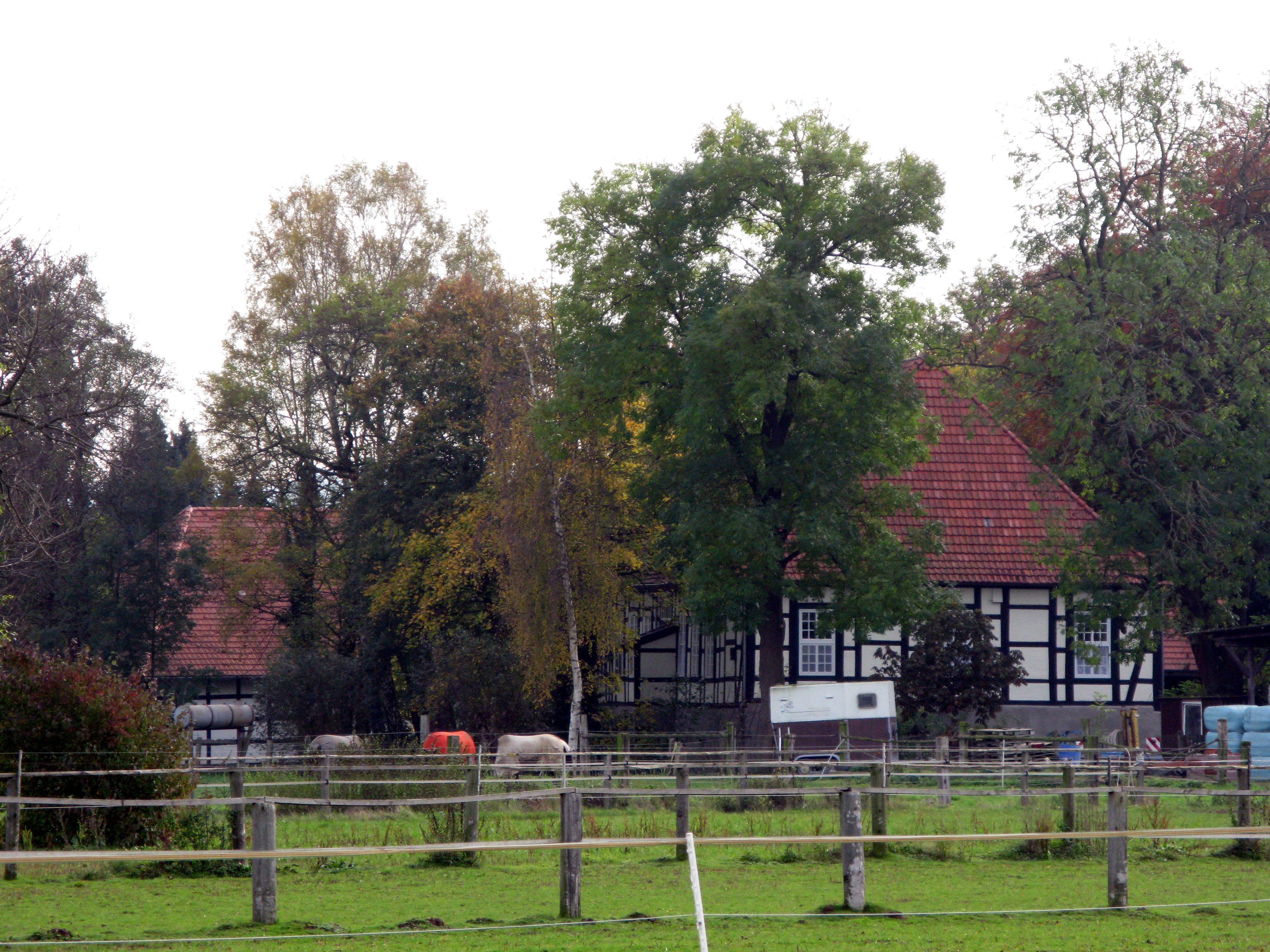 Gut Klein-Engershausen This is a photograph of an architectural monument. It is on the list of cultural monuments of Preußisch Oldendorf